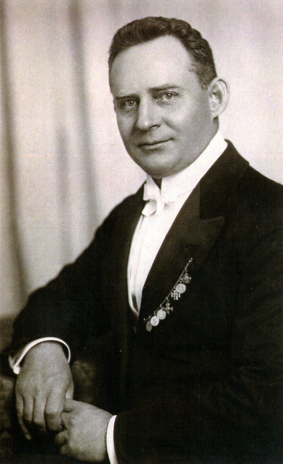 Portrait of Max Feiereis (1882-1960)